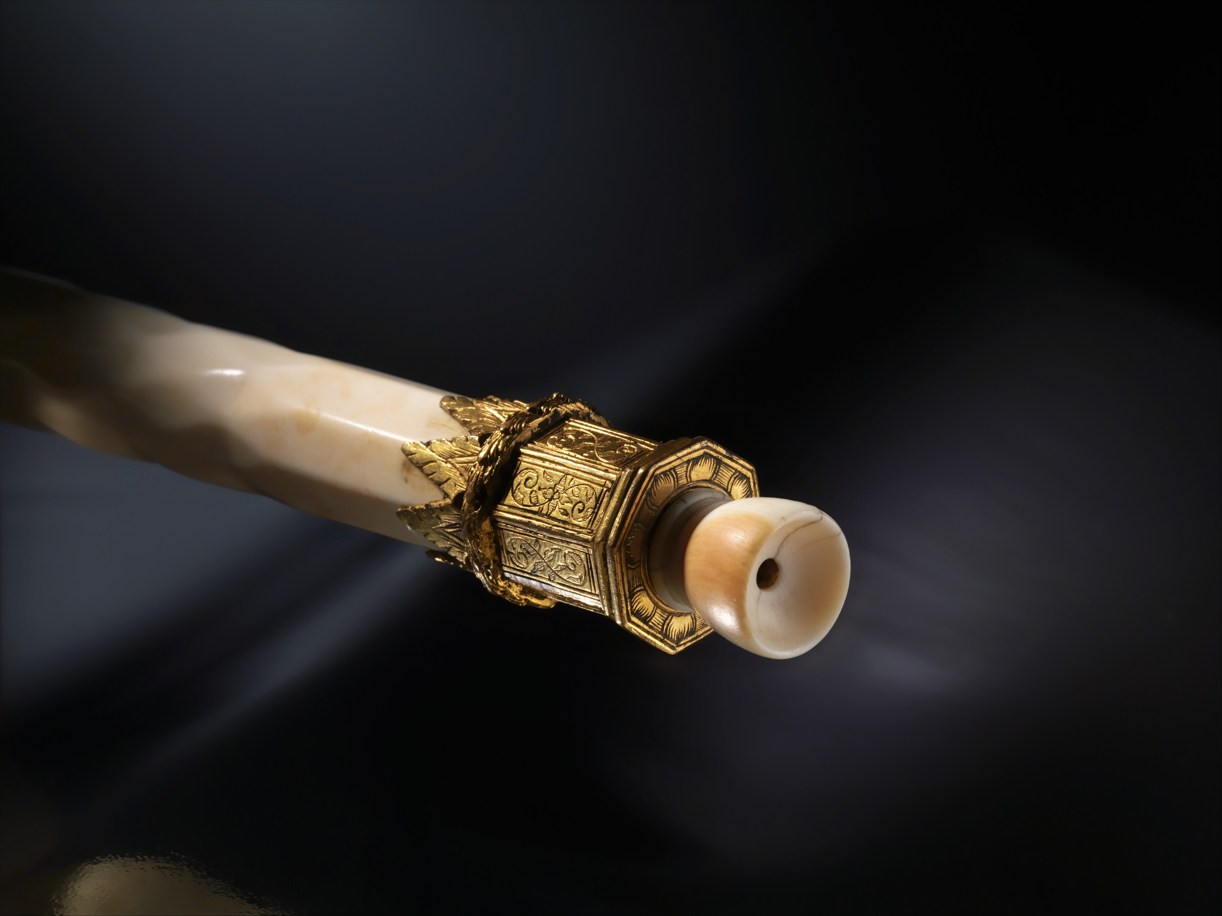 German; Cornetto in A; Aerophone-Lip Vibrated